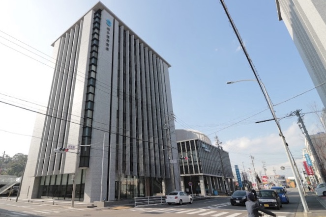 The Chita Shinkin Bank head office